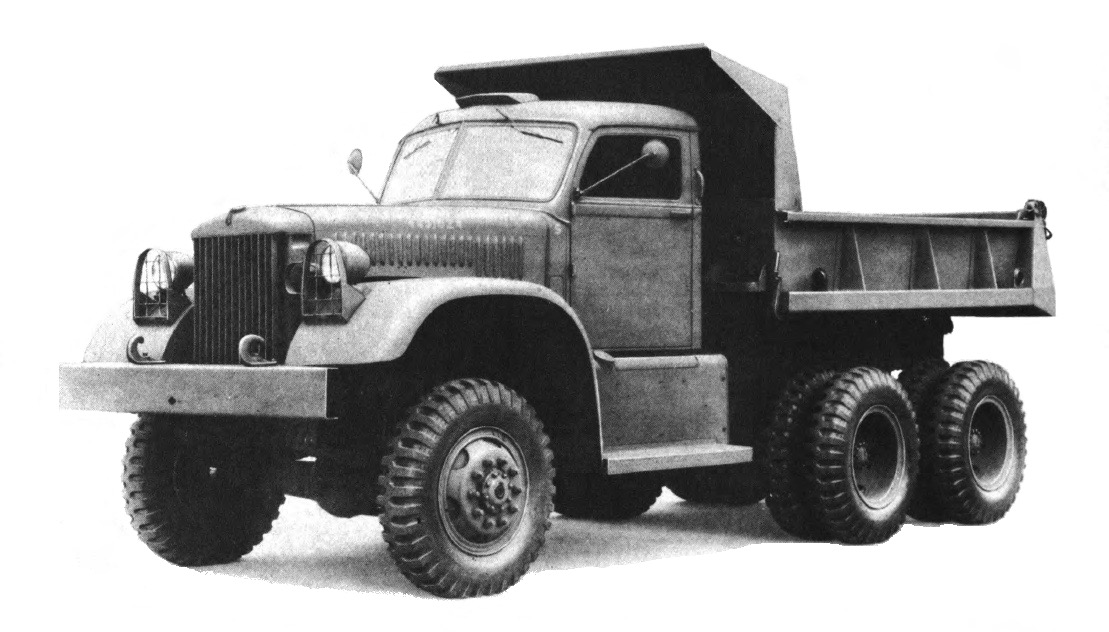 Diamond T Model 972A 4-ton 6x6 Dump Truck